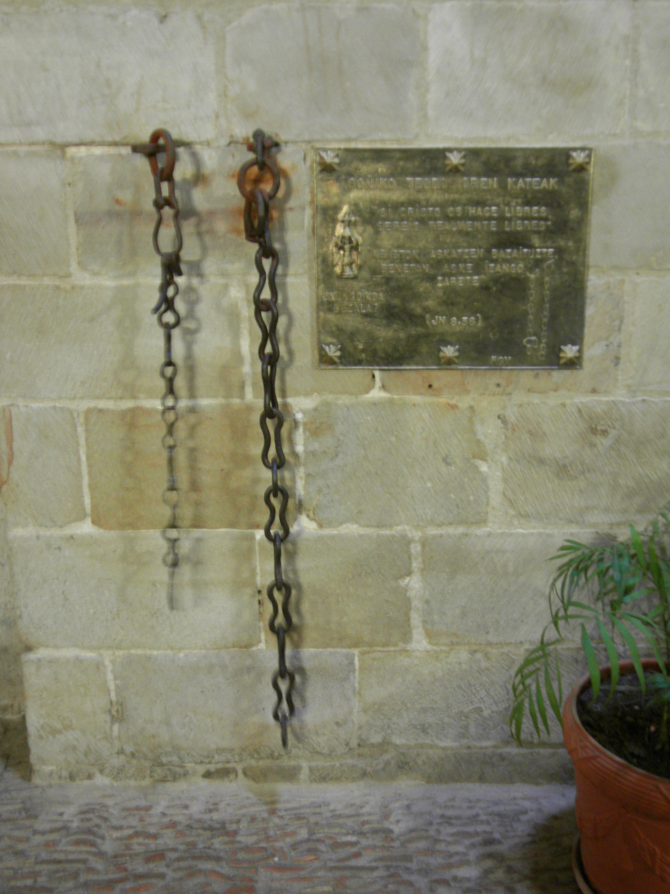 Teodosio of Goñi (presumed) chains, San Migel sanctuary, Aralar (Navarre)